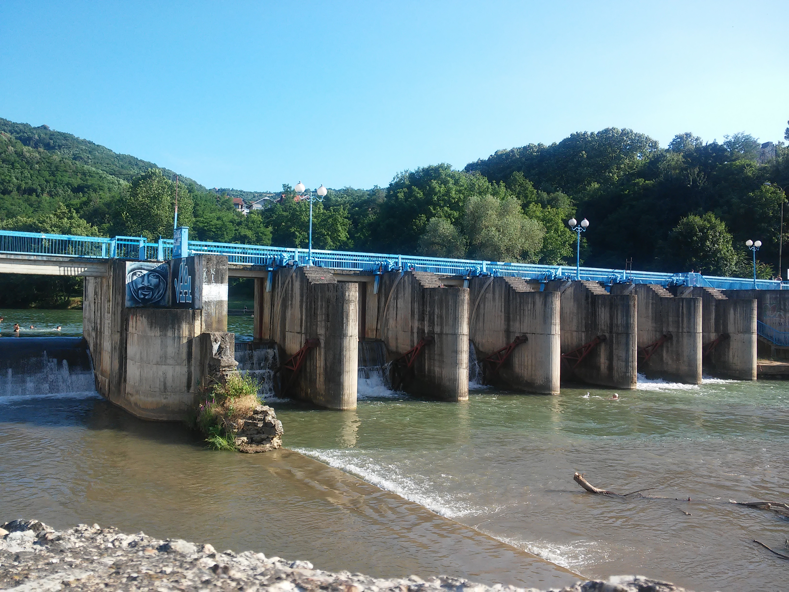 Kupalište u Vlasotincu